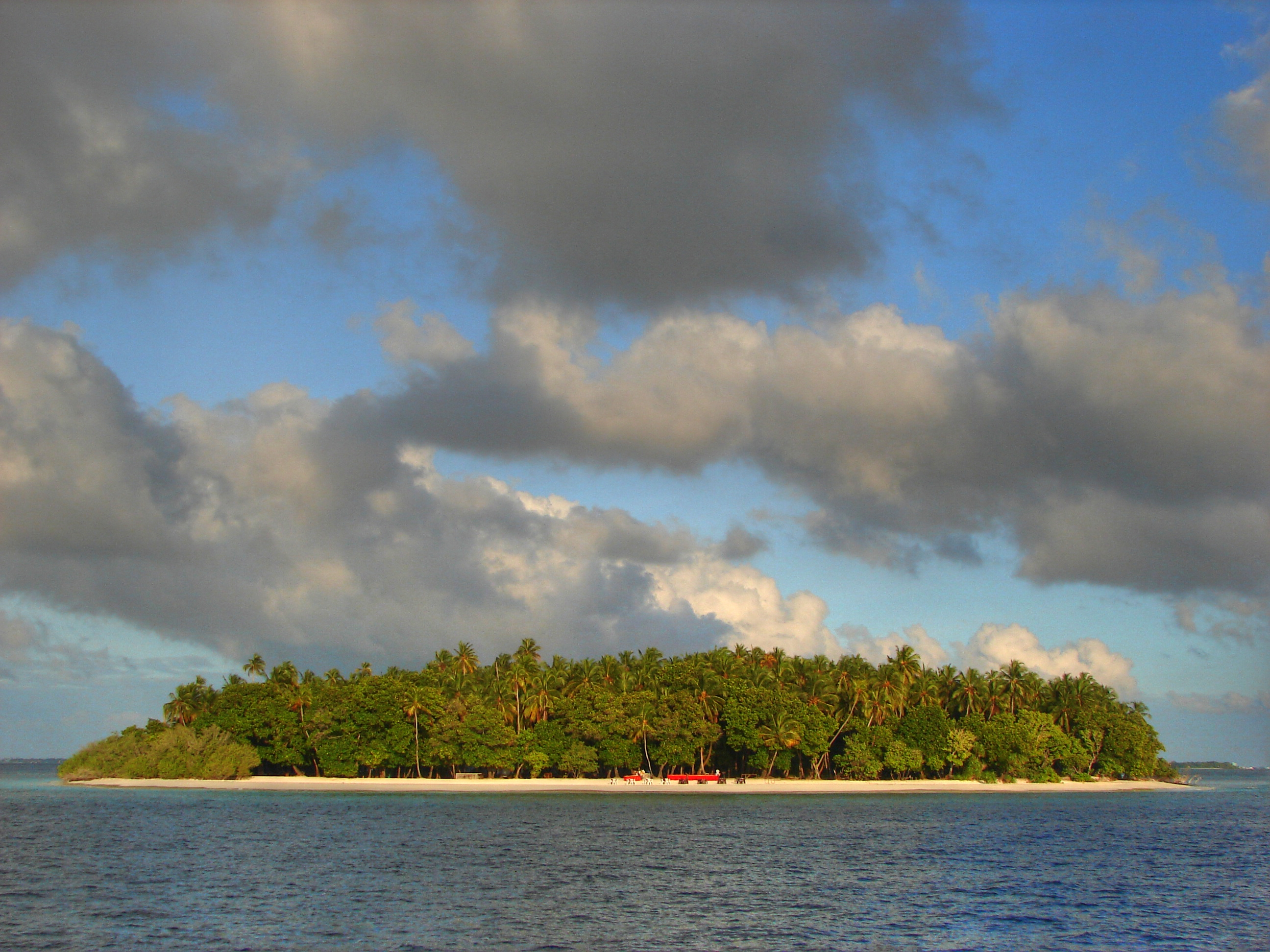 Photographs from Maldives